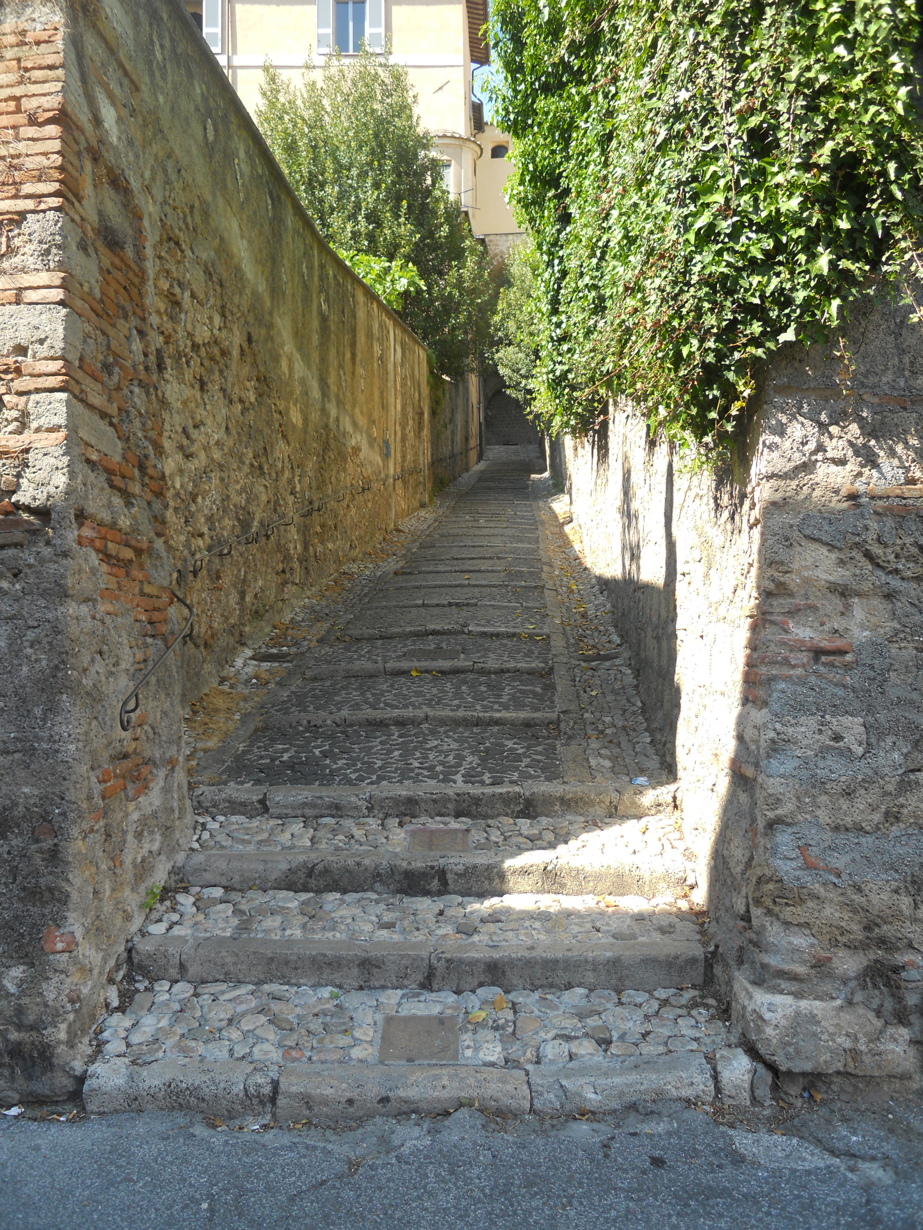 Via dell'Episcopio - Rieti, Italy